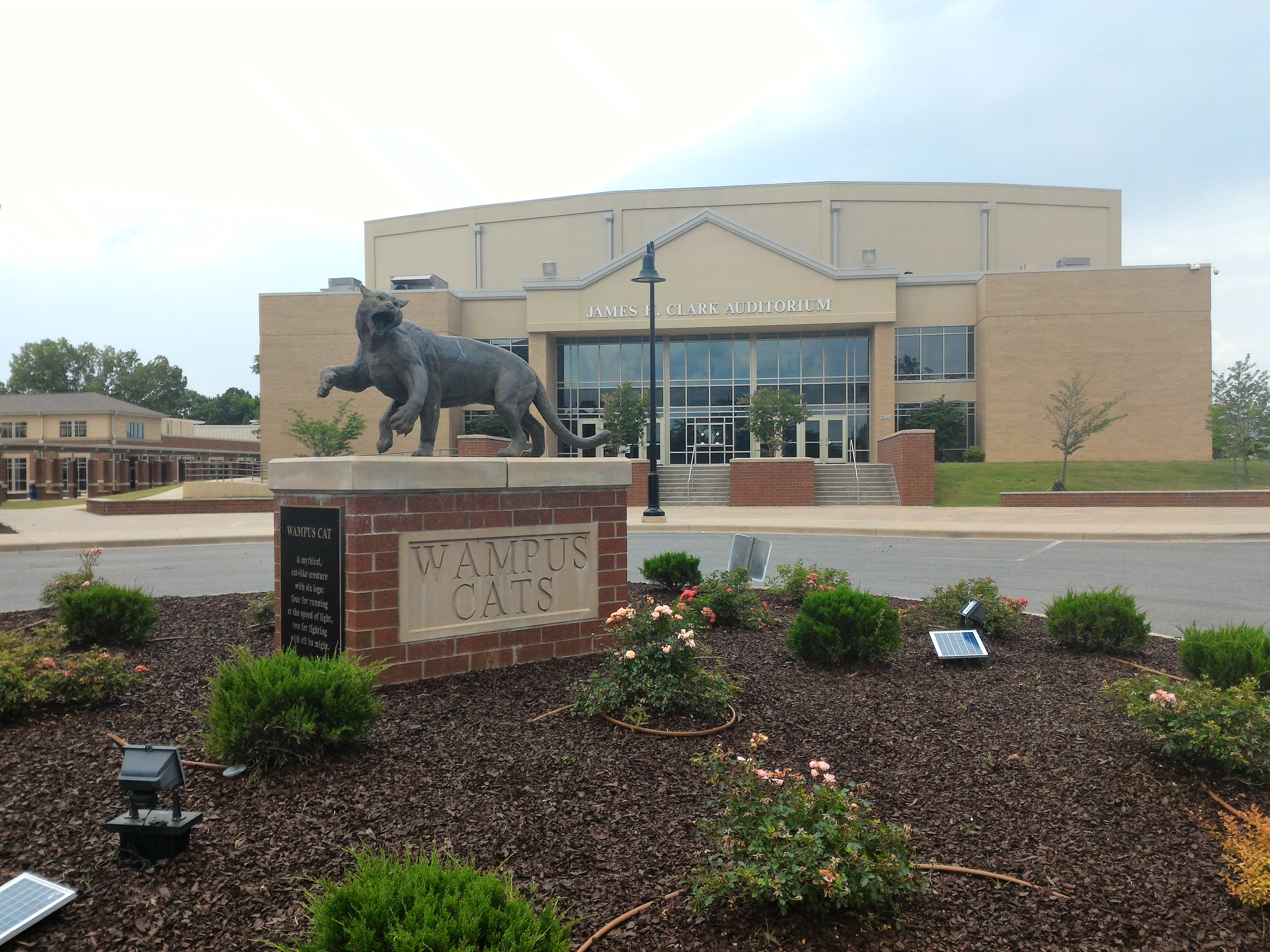 Wampus Cat